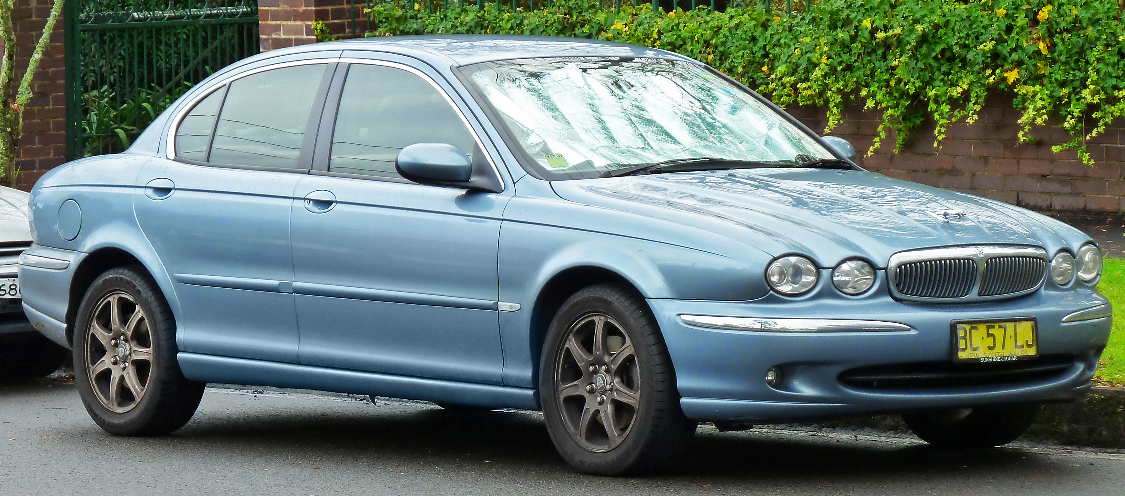 2005 Jaguar X-Type (X400) SE sedan. Photographed in Gordon, New South Wales, Australia.